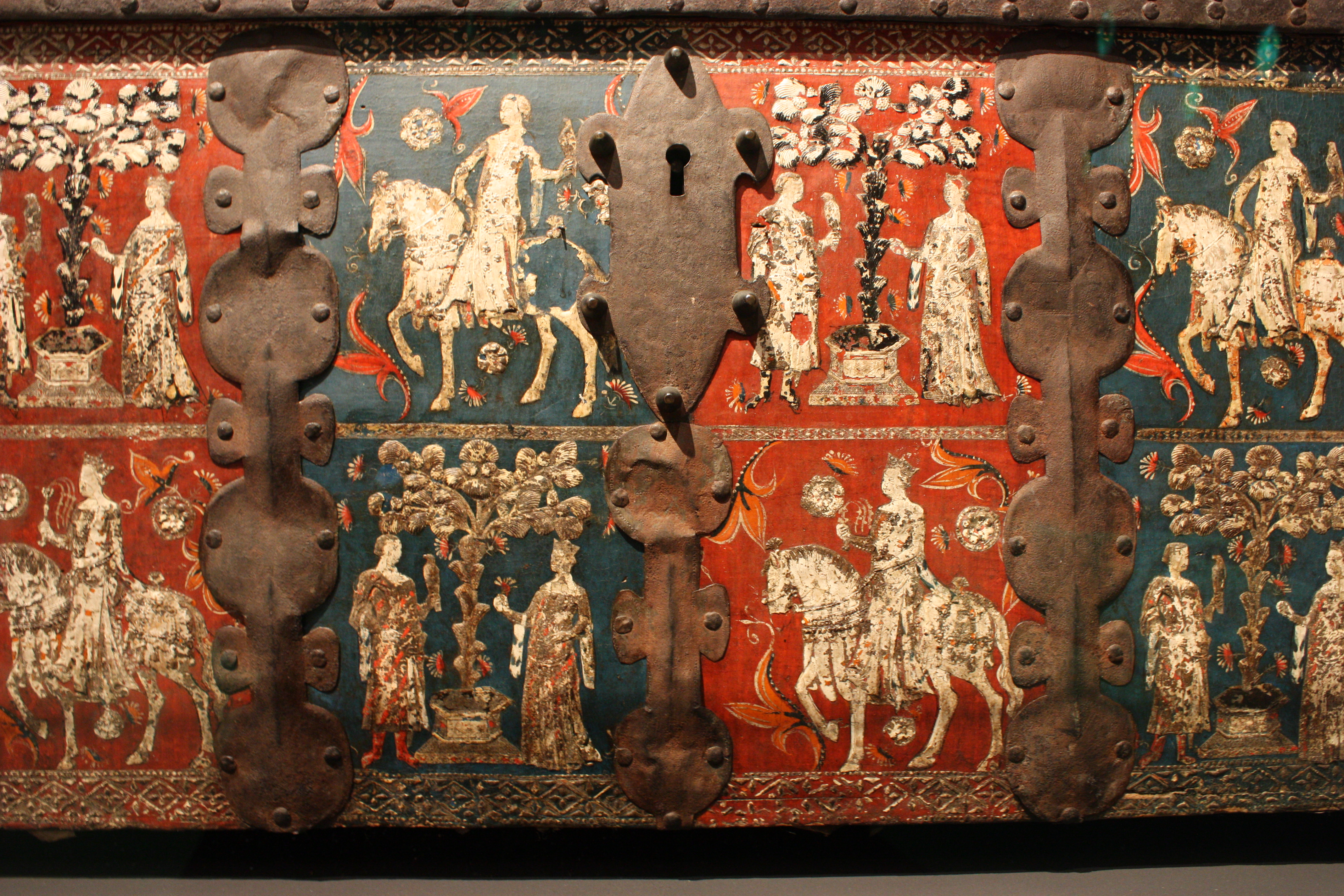 Marriage chest 1345-54 Italy, probably Florence or Siena Poplar wood, with figures moulded in gesso, reinforced with iron bands The figures on this marriage chest all link to courtly romances. They include a lovers\' tryst by the fountain of love, a rider with a falcon, and a queen on horseback brandishing a scourge. By about 1300, the cassone, or chest, was the most prestigious form of storage in Italian households. This example was most likely made in Florence or Siena: some red or blue 'damsels' chests' (girls' chests) were ordered in Florence in 1384 by Francesco Datini (1355-1410); and a pair are shown in a painting by the Sienese artist Simone Martini (died 1344). Cassoni were often placed around beds and decorated with popular romantic themes: in this case, love is symbolised by figures at 'the fountain of love' and by ladies on horseback with falcons taking part in 'the hunt of love'. This cassone may be one of the earliest known, because the ladies' sleeves, which are cut off at the elbow, were only fashionable during the 1350s. Collection ID: 317-1894 This photo was taken as part of Britain Loves Wikipedia in February 2010 by Valerie McGlinchey.